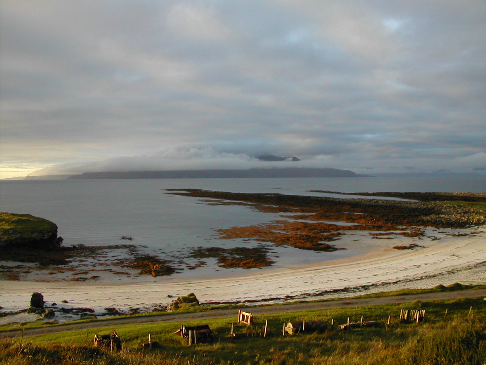 Gallanach Beach on the Isle of Muck, looking north towards the Isle of Eigg.